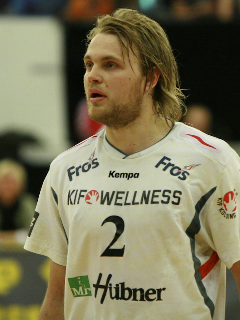 Henrik Møllgaard from KIF Kolding.